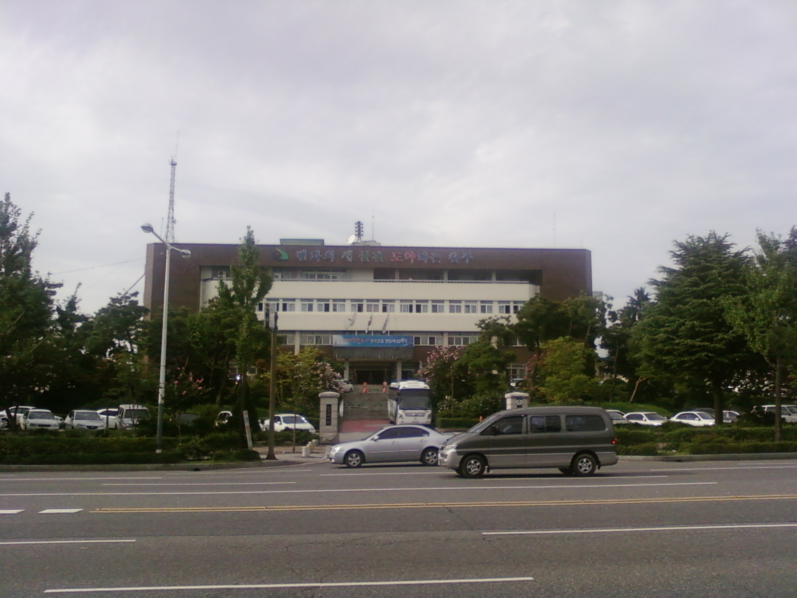 Wanju Country Office in Jeonju, Korea